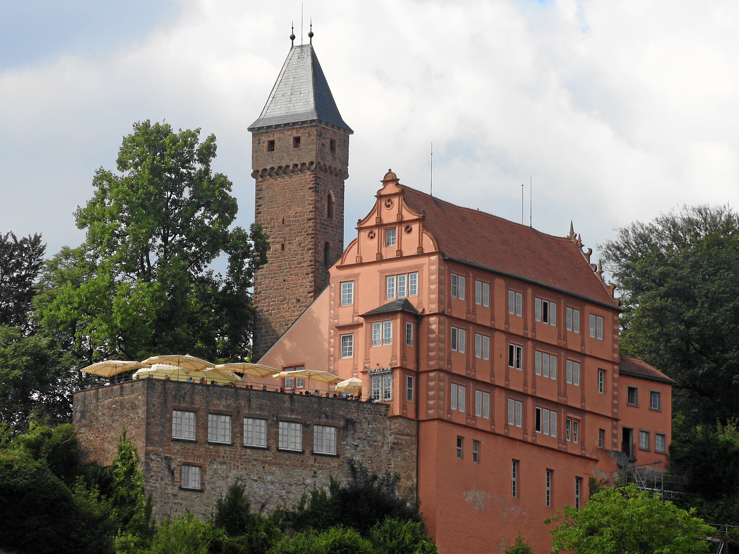 Hirschhorn, Germany. Castle, view from South-East.